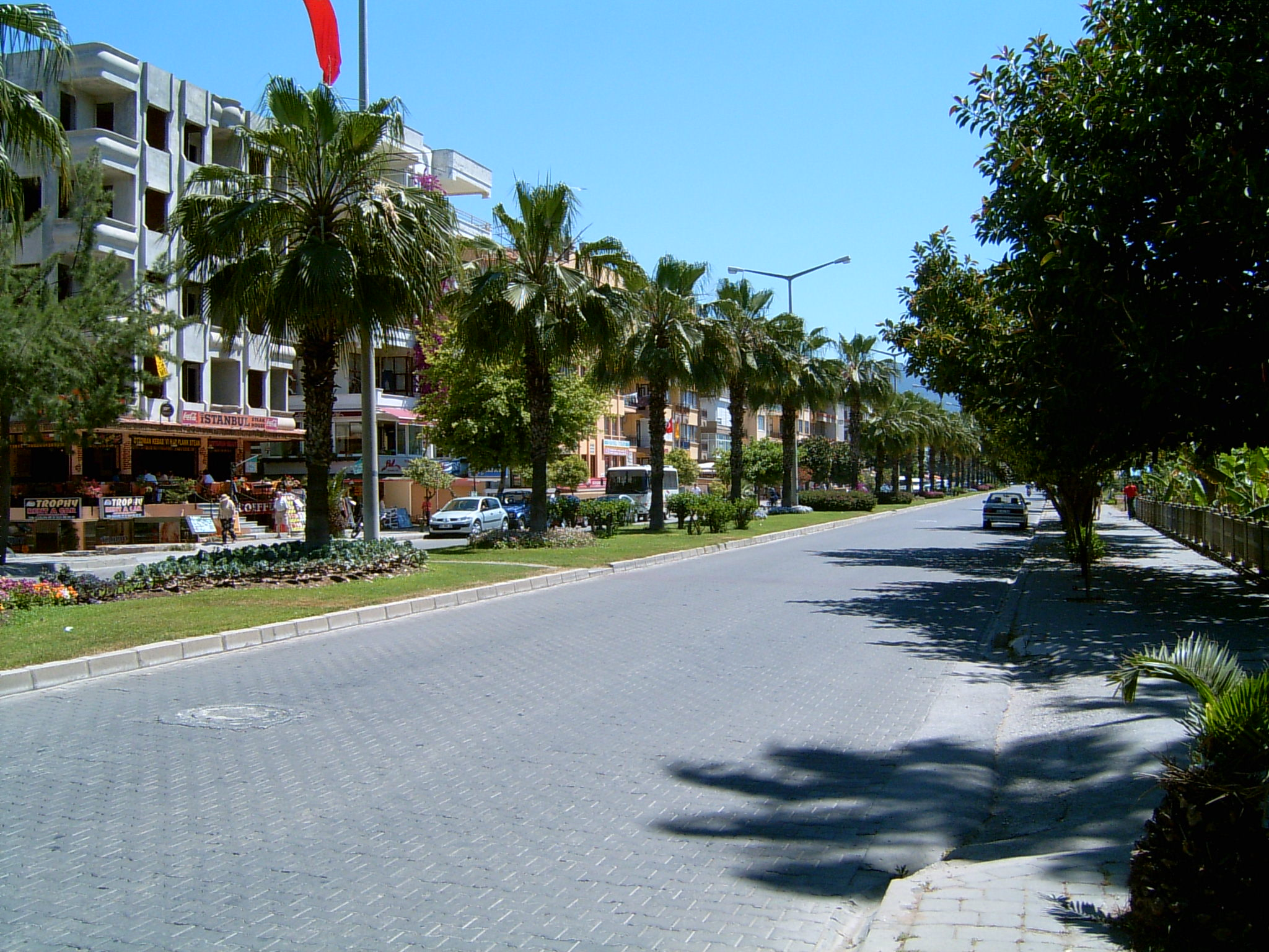 One of the main roads in Alanya, Turkey.